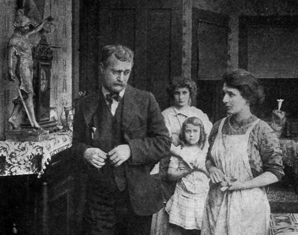 Scene from the 1916 silent film Acquitted featuring Wilfred Lucas, Bessie Love, Carmen De Rue, and Mary Alden